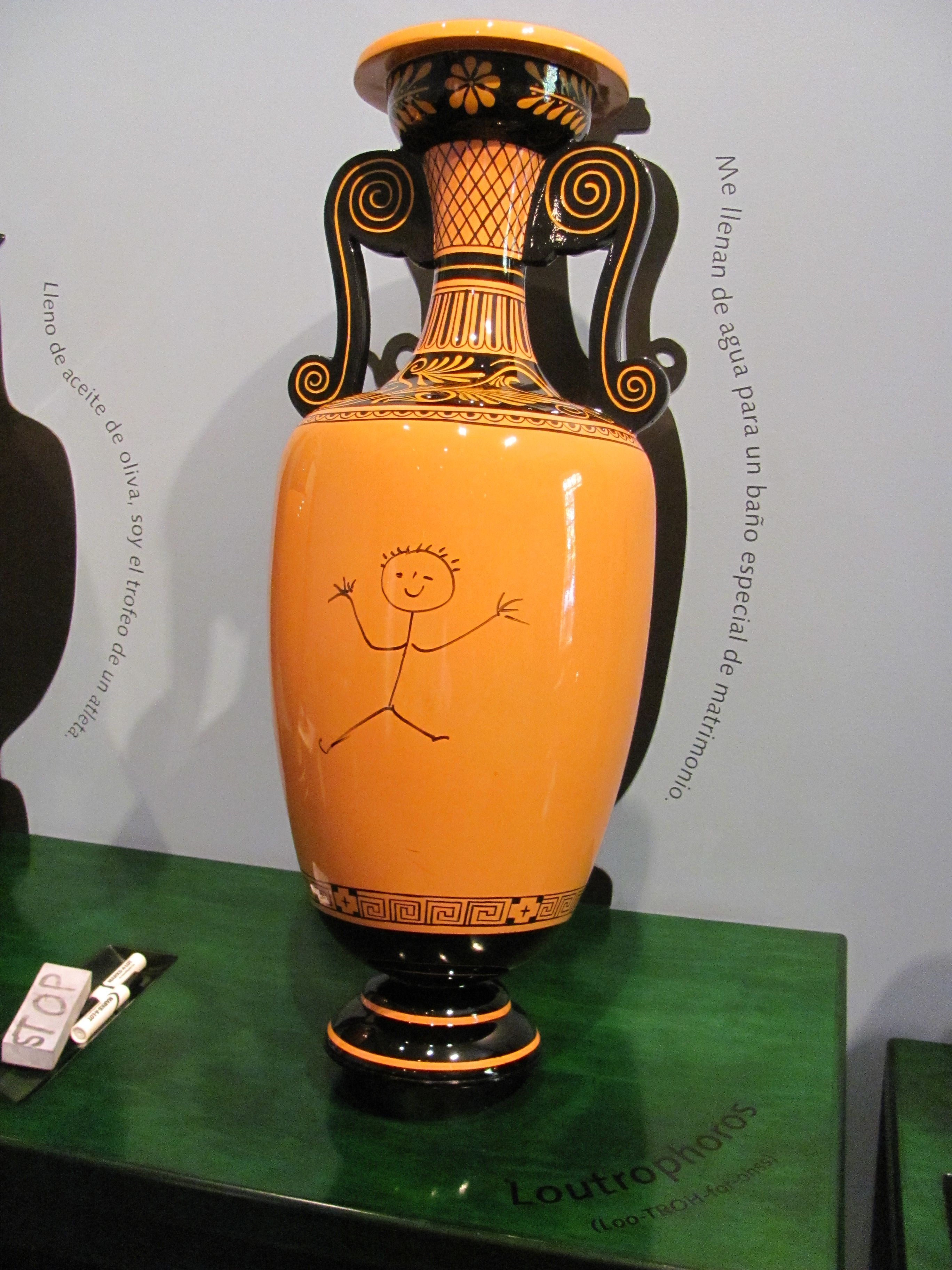 Greek vessel for self-painting